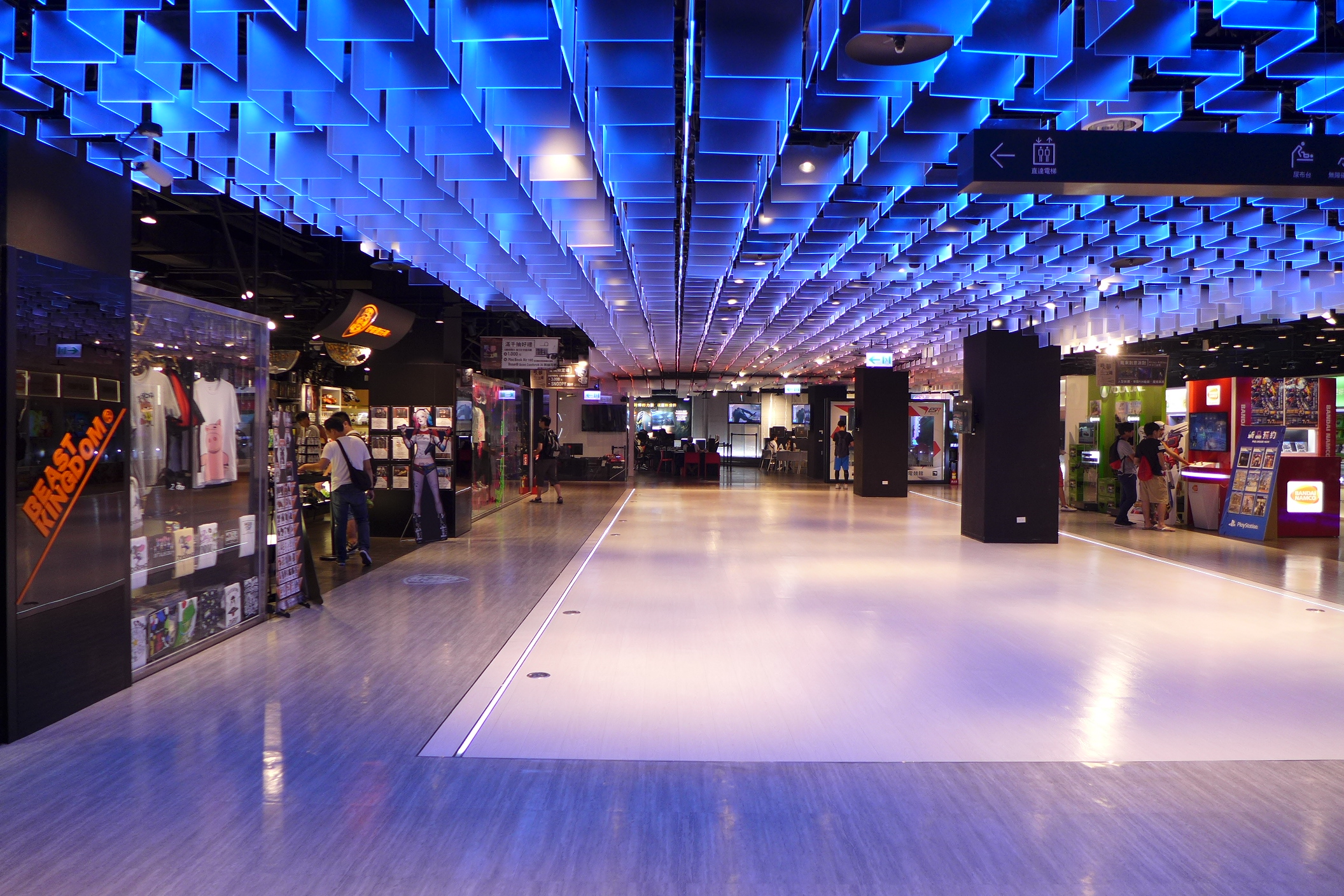 Syntrend Creative Park